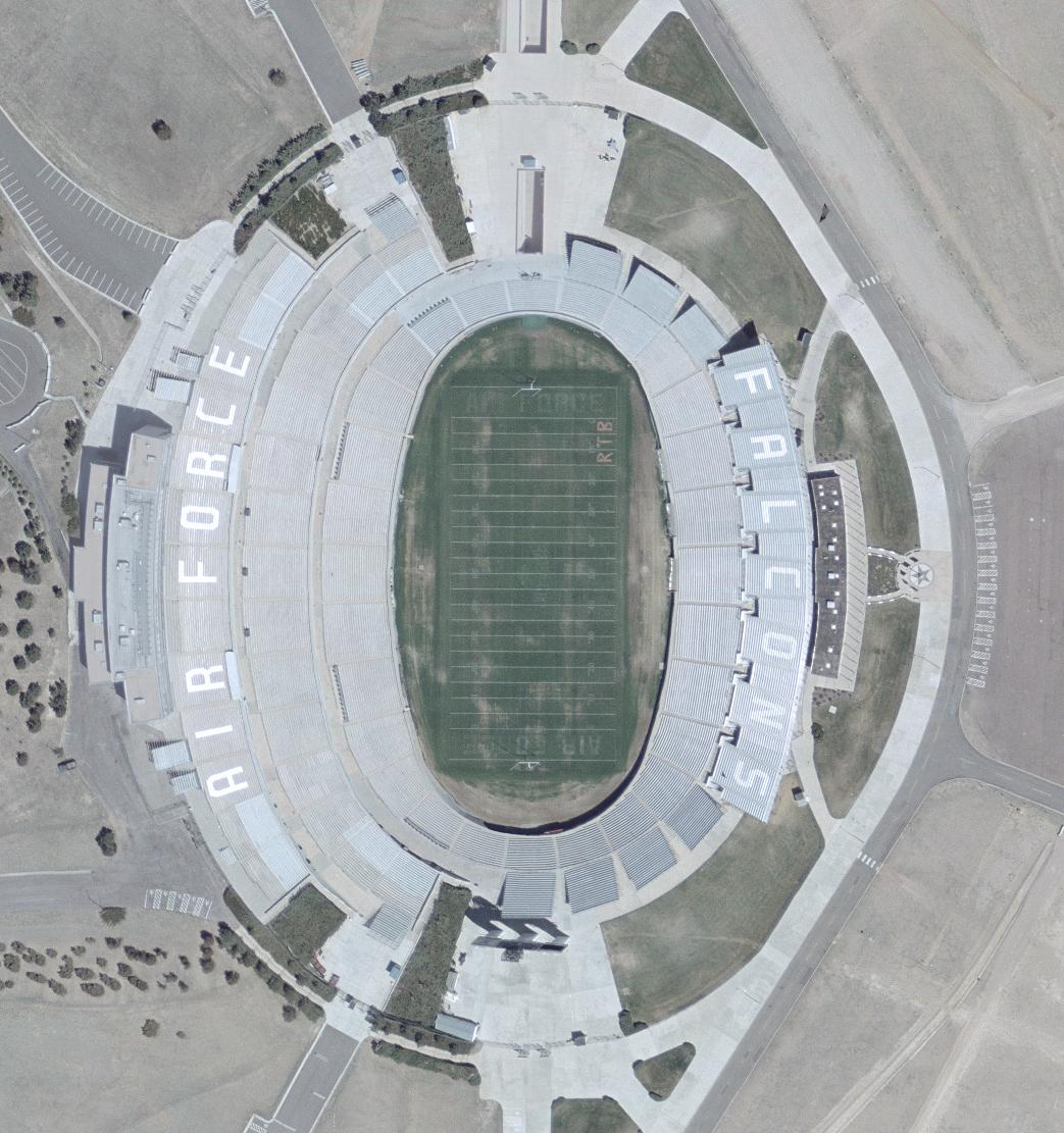 Air Force Falcon Stadium in Colorado Springs, Colorado satellite view taken in April 2002.